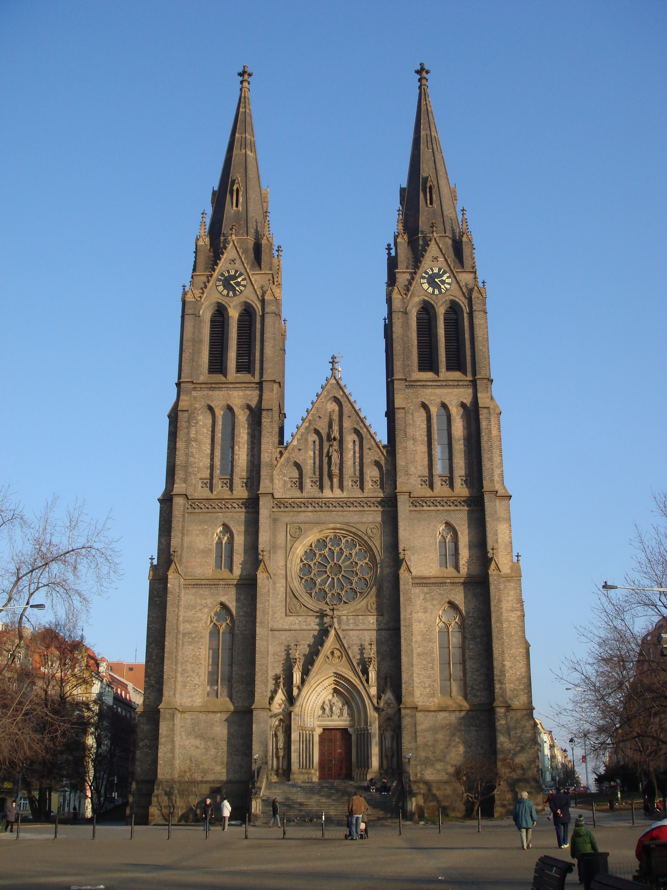 Church of St. Ludmila on the Náměstí Míru square (Prague, Czech Republic).